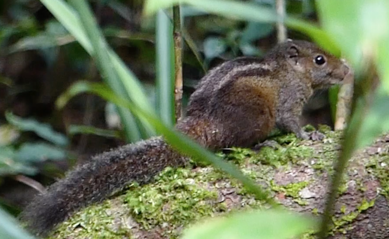 An image of a Dusky-striped squirrel from Sri Lanka obtained as a screenshot from a film owned by the uploader at 1080p. Intended article Funambulus obscurus.